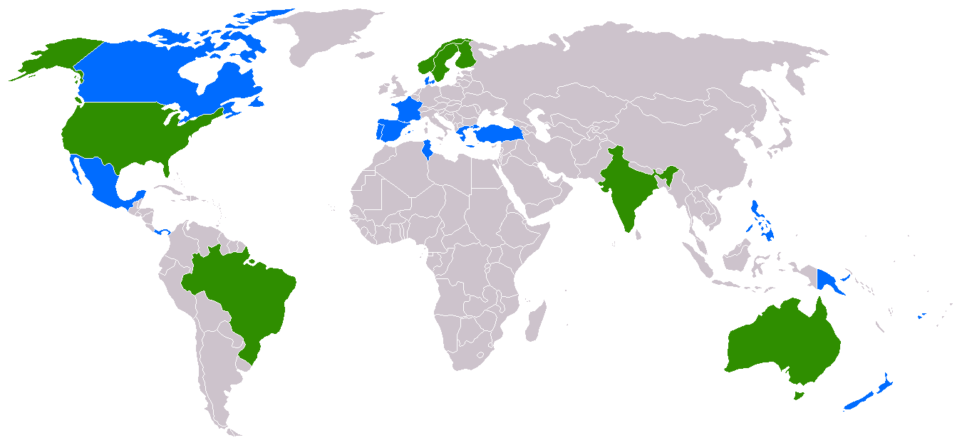 Countries where The Phantom is being printed. The green countries have regular Phantom publications, while the blue countries have publications in newspaper. Map based upon Image:BlankMap-World.png